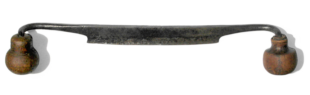 Drawknife (woodworking tool)